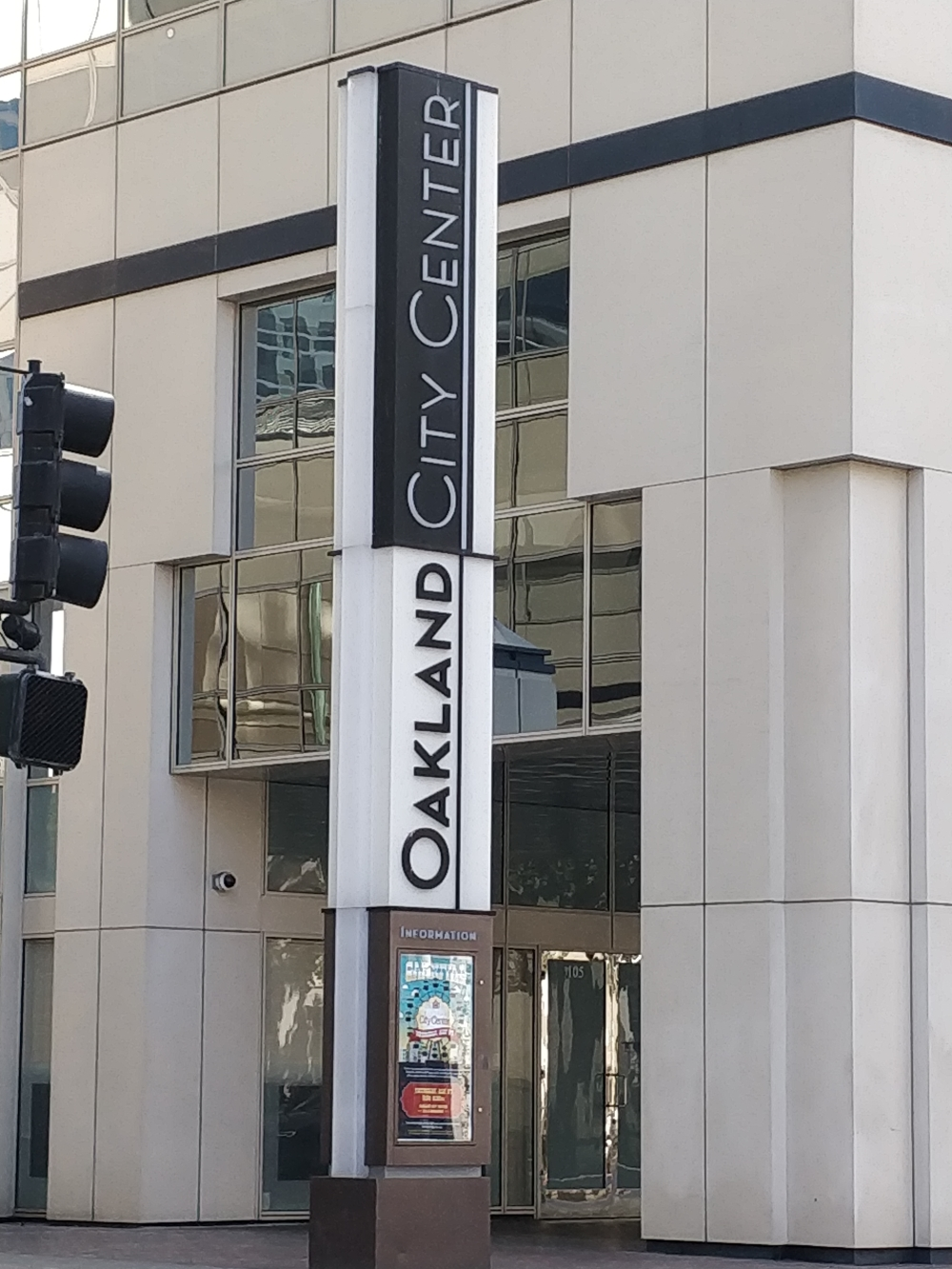 Oakland City Center in Downtown Oakland. As seen in 2018.